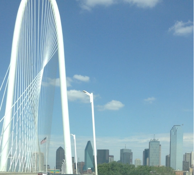 The skyline of Dallas over the Margaret Hunt Hill Bridge